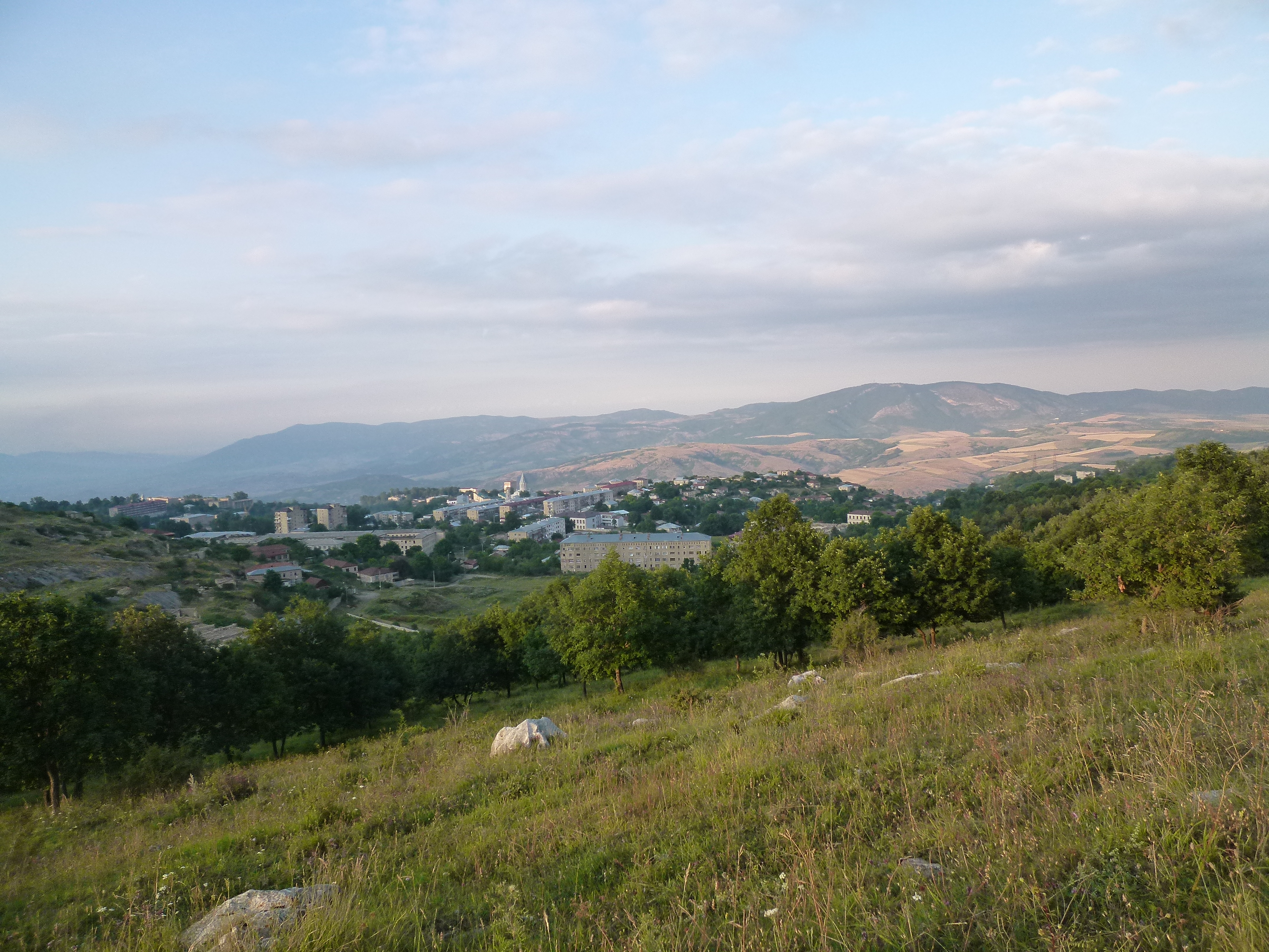 Shusha, a town in Azerbijan (controlled by the unrecognized republic of Nagorno-Karabakh (Artsakh)).